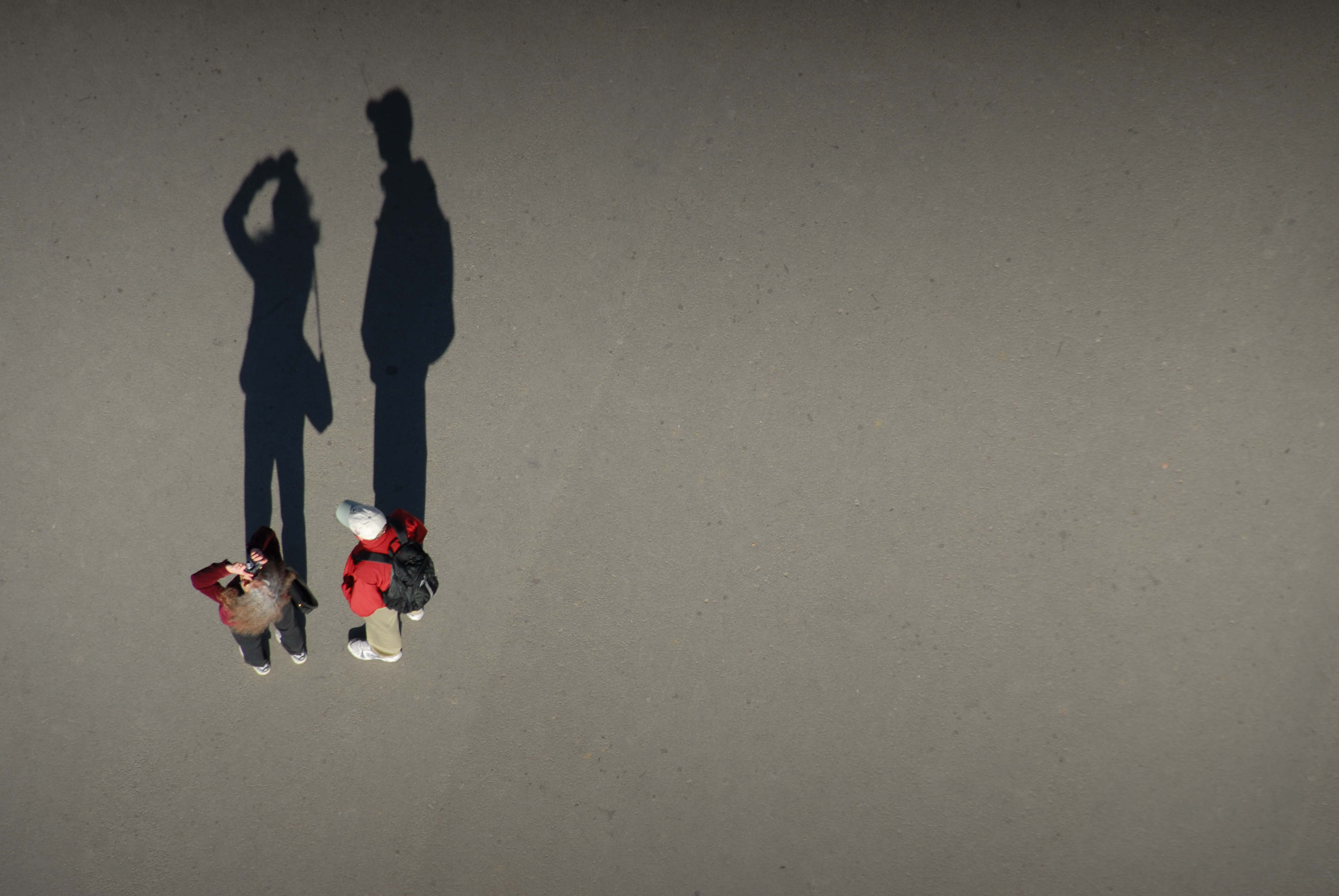 View from the first floor of the Eiffel Tower, Paris